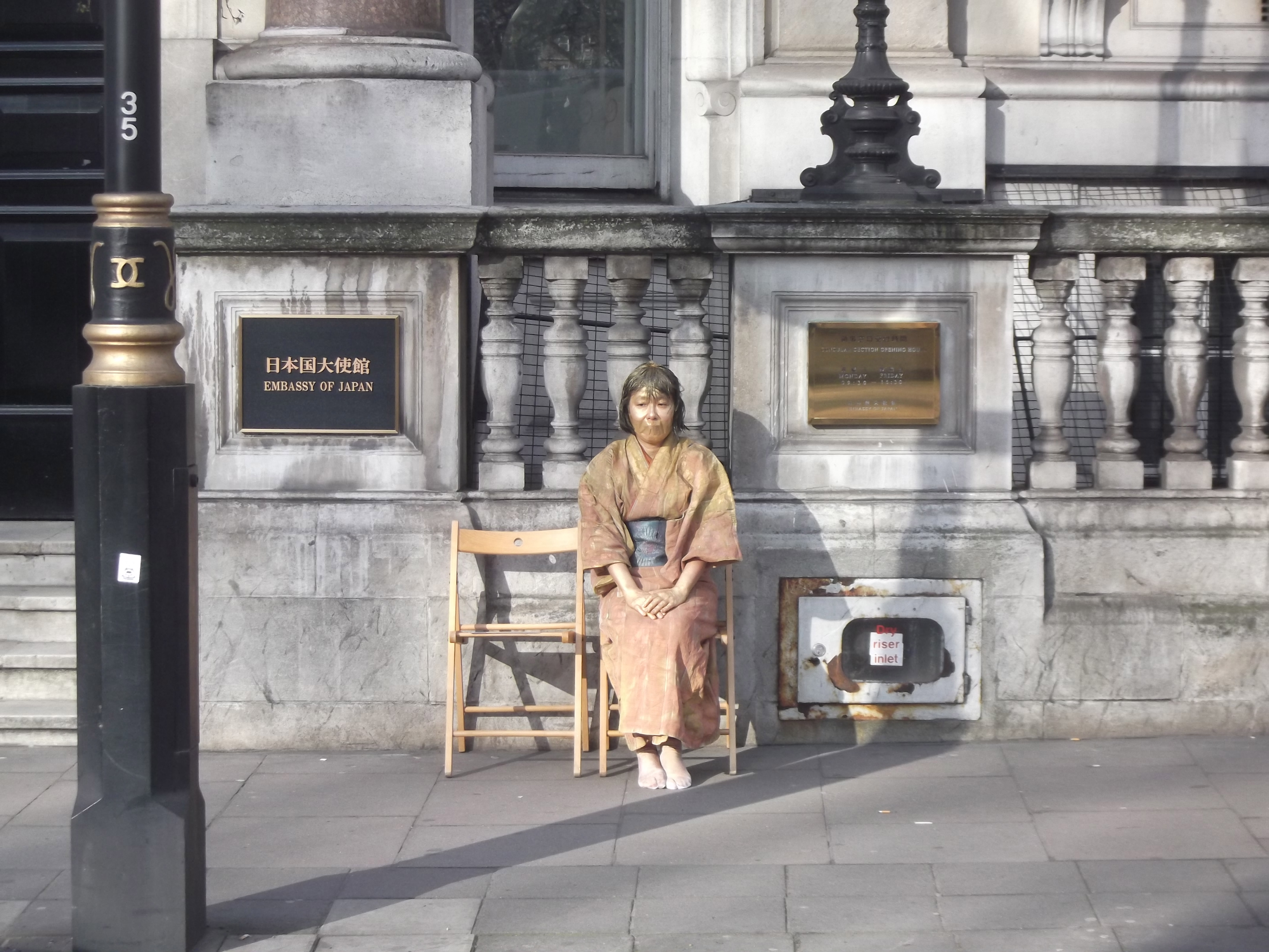 Performance by Yoshiko Shimada: On Becoming a Statue of a Japanese Comfort Woman